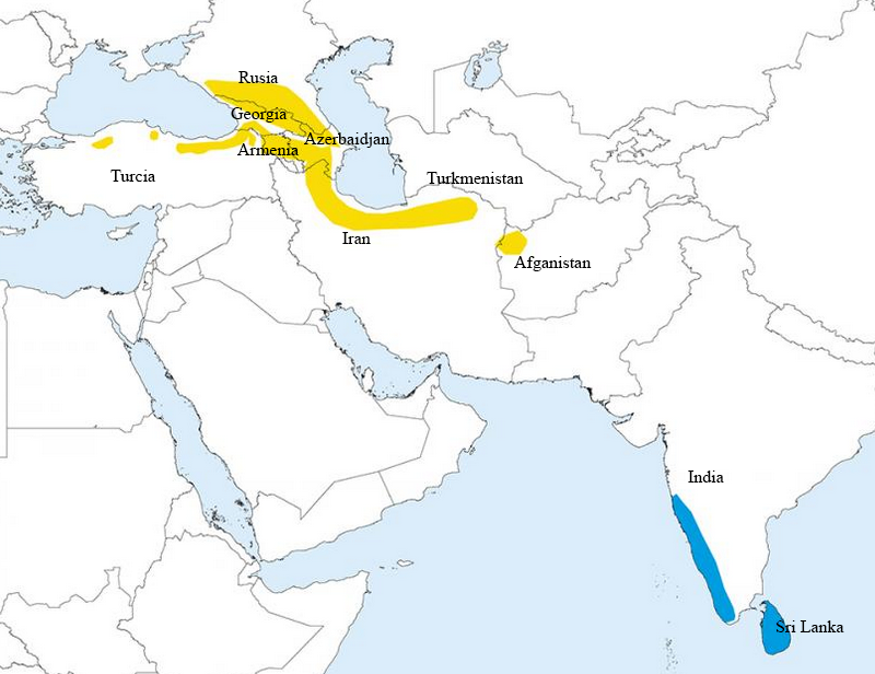 Phylloscopus nitidus distribution map ro